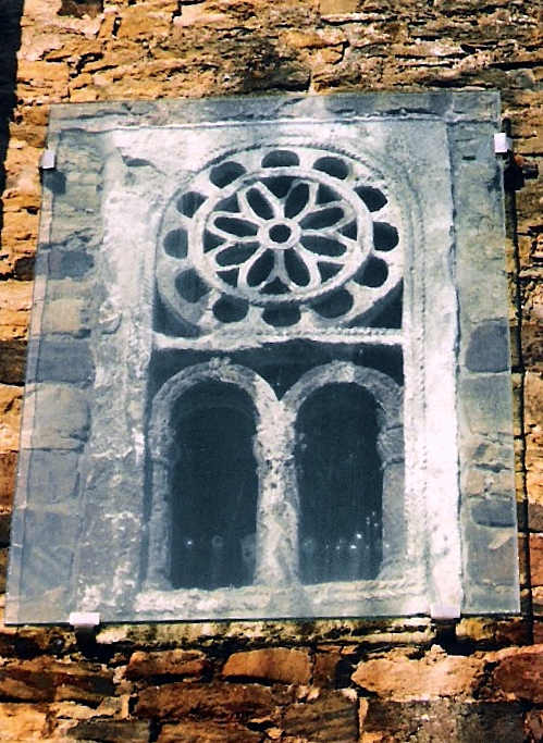 Original window of the 9th century in the Church of San Miguel de Lillo, Oviedo, Spain